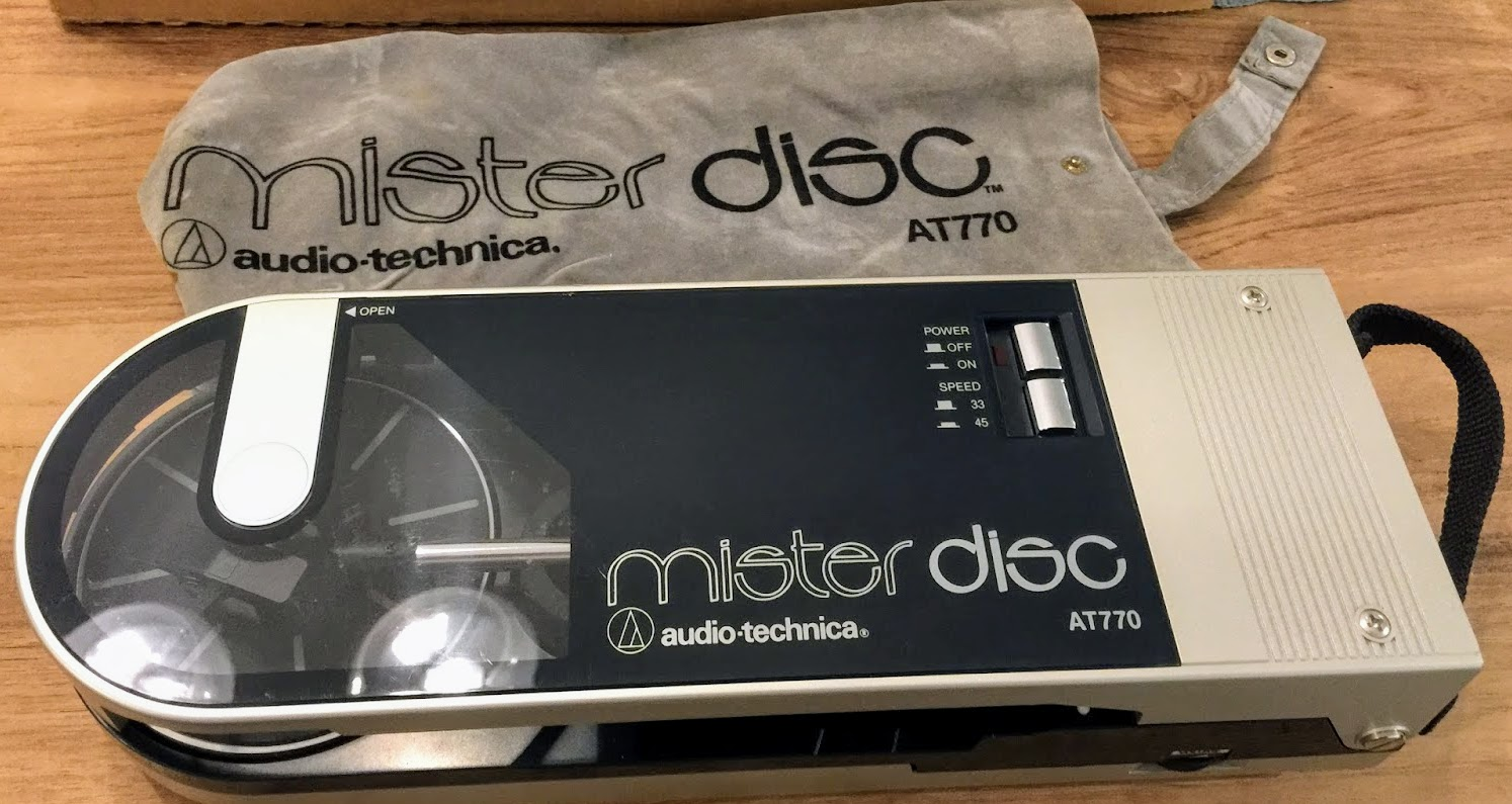 a portable record player sold in the early 1980s